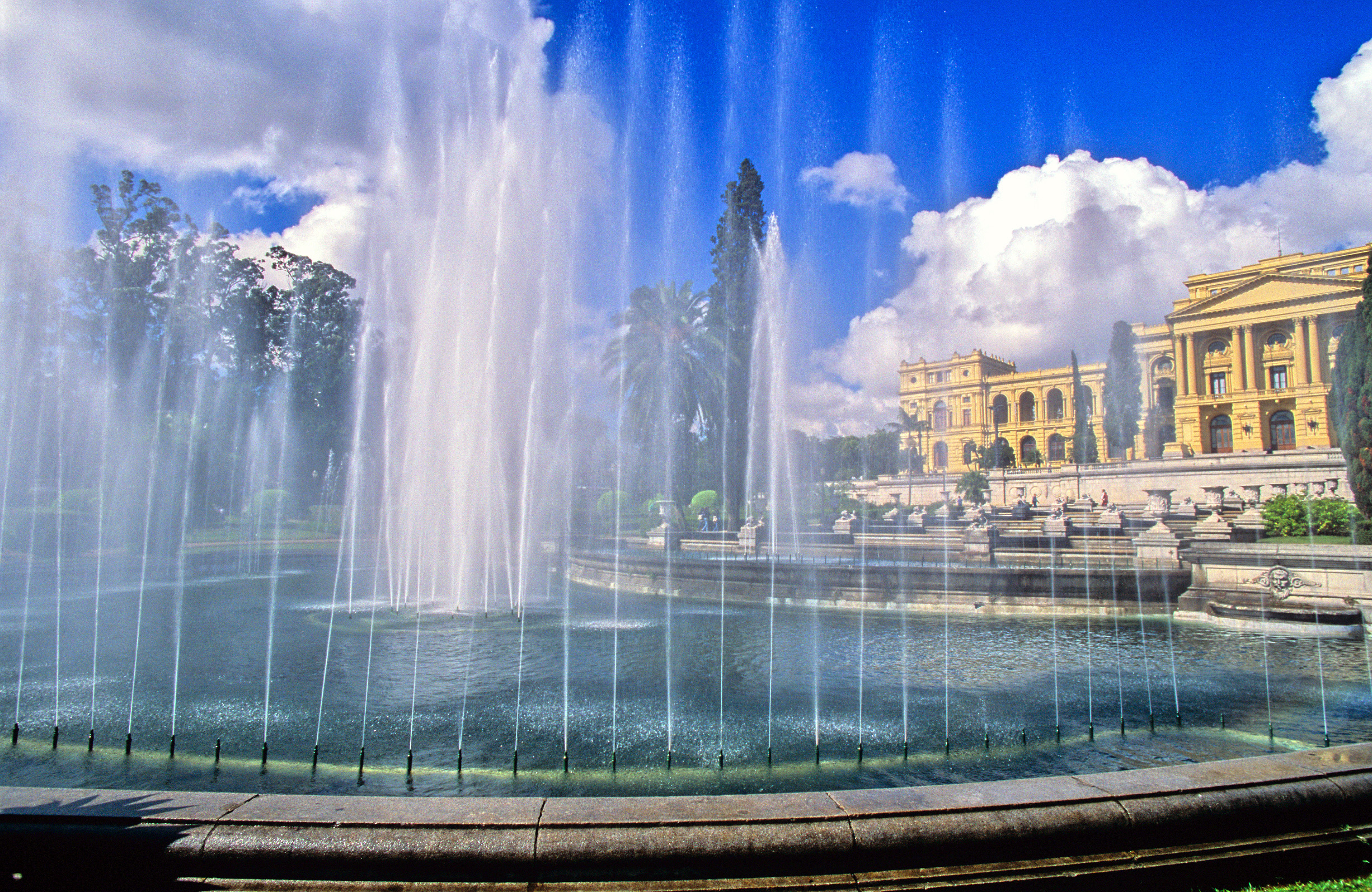 Legend: Ipiranga Museum, São Paulo, Brazil.